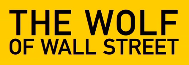 The wolf of Wall Street 2013 logo.